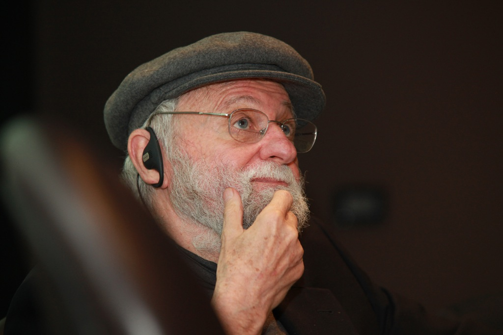 Event: MtMG | Don Norman Date: 22 March 2011 Venue: Mediateca Santa Teresa, Milan, Italy photo by Paolo Sacchi